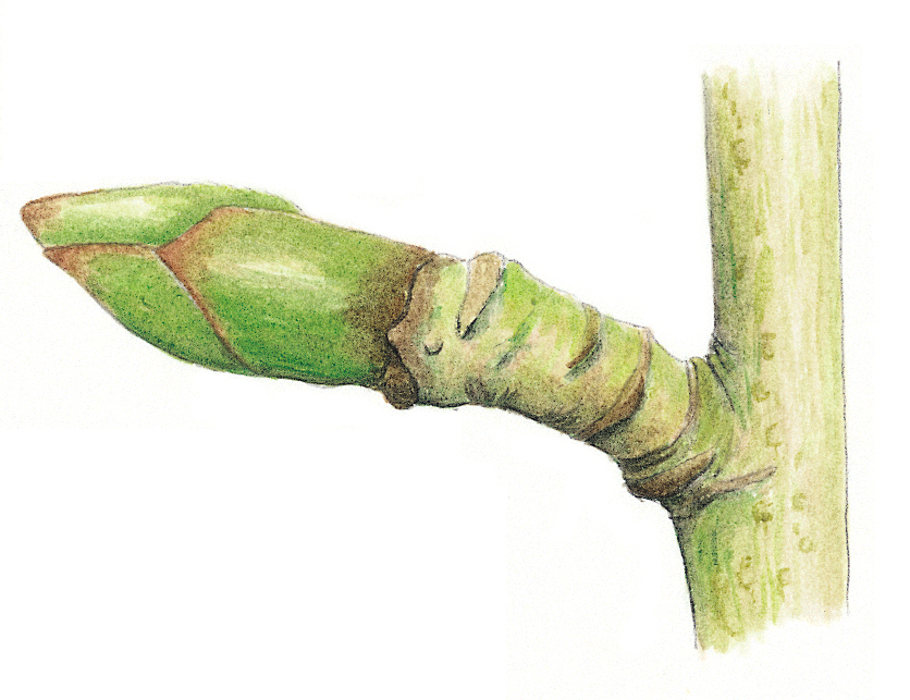 Sorbus domestica buds